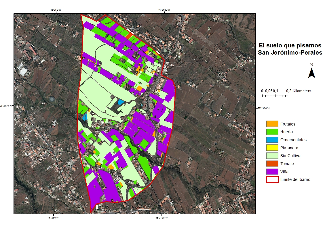 Mapa de cultivo del barrio de San Jerónimo